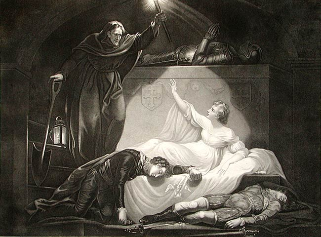 Romeo and Juliet, Juliet wake up in the grave